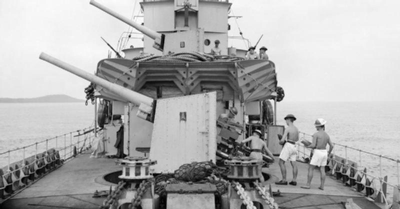 Photograph showing forward 4.7 inch guns of British destroyer HMS Foxhound, at Freetown, Sierra Leone.